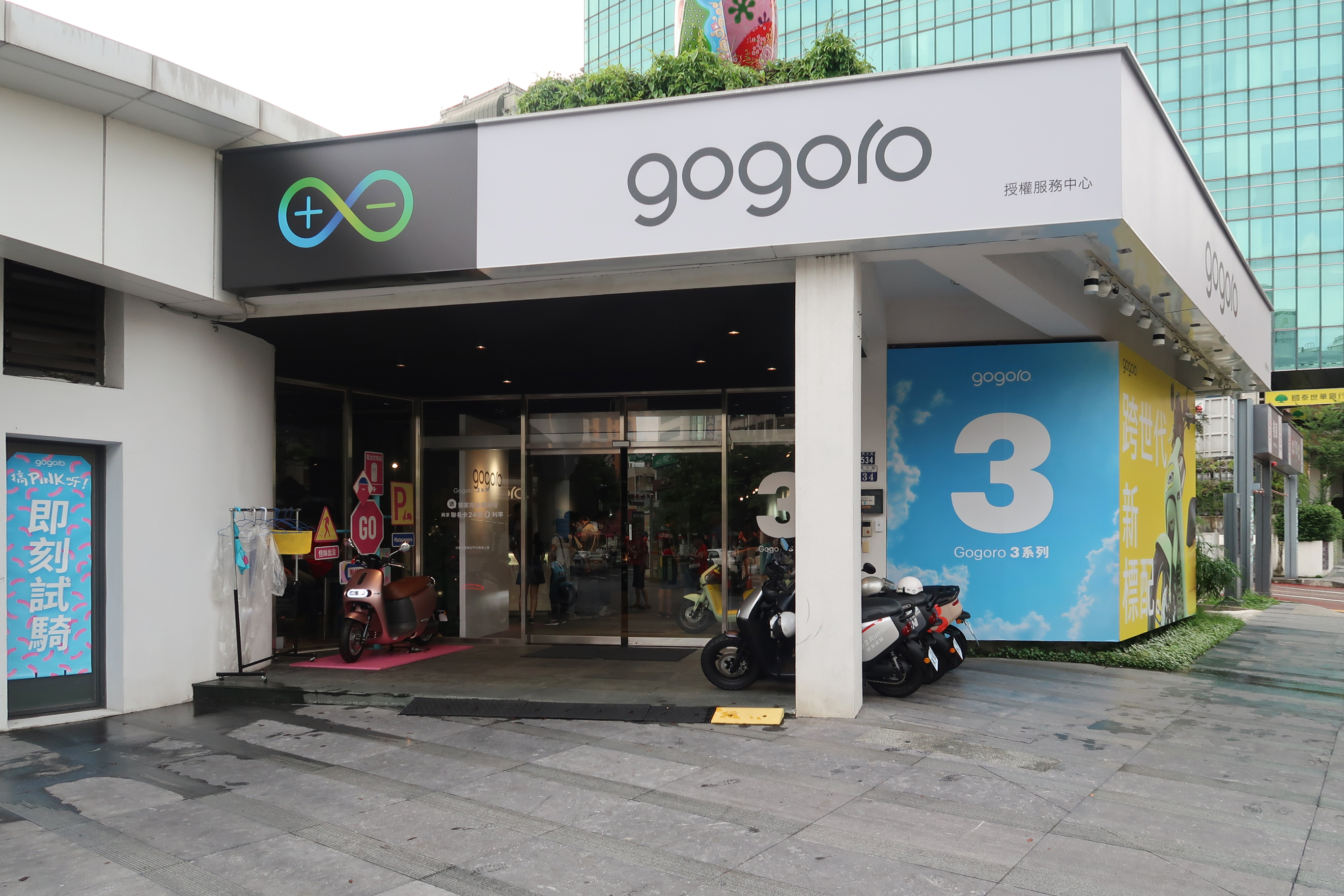 Gogoro in Caowu Square, Taichung